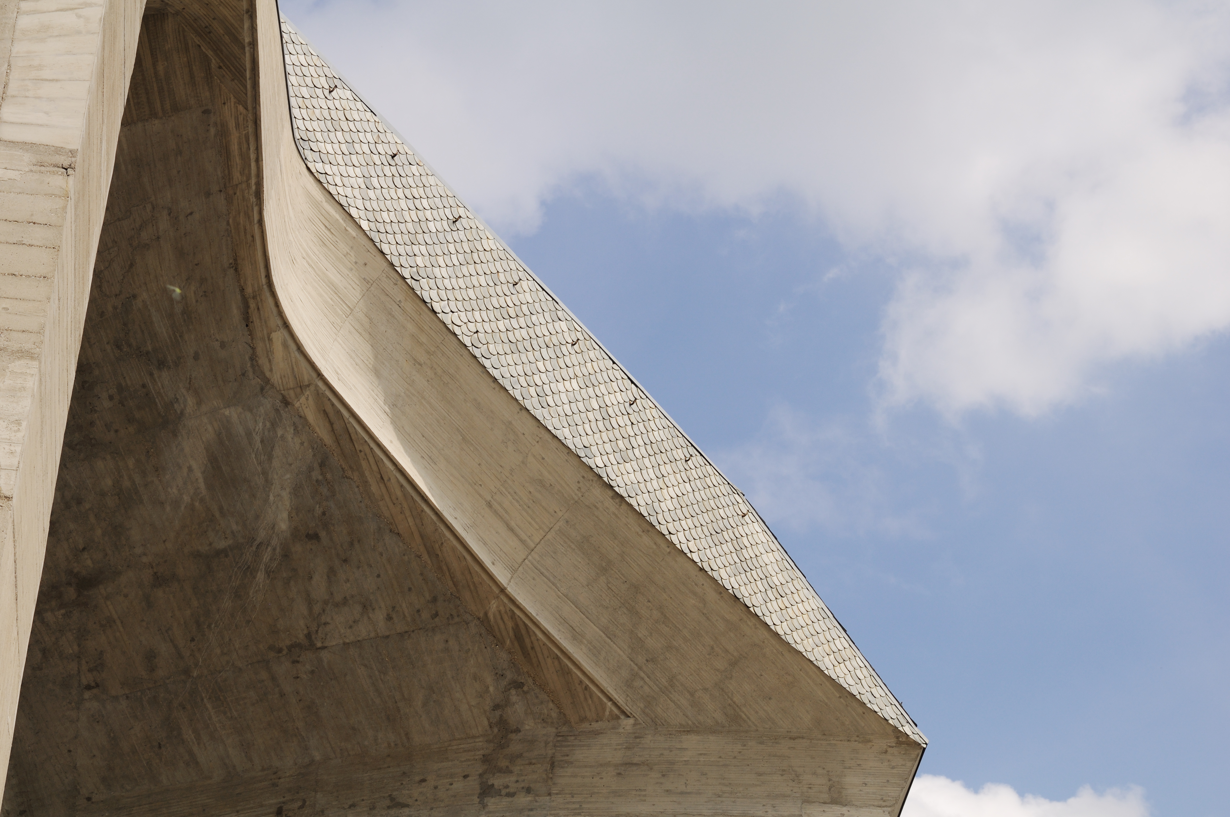 detail of Goetheanum